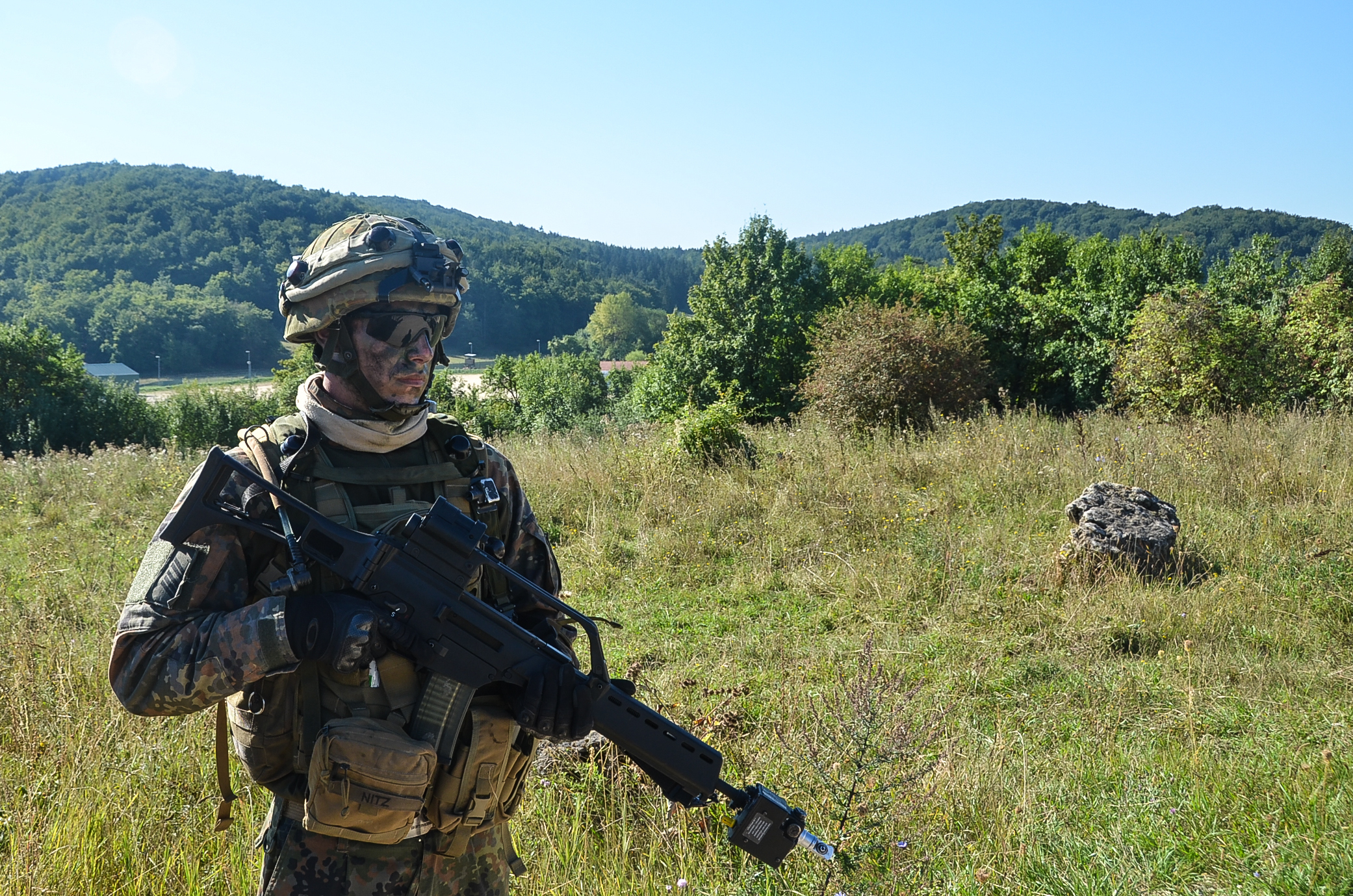 A German soldier of 6th Company, 31st Parachute Infantry Regiment provides security during exercise Swift Response 15 at the U.S. Army’s Joint Multinational Readiness Center in Hohenfels, Germany, Aug. 30, 2015. The purpose of the exercise is to conduct joint and combined training events in order to evaluate brigade and battalion level execution of strategic out-load in conjunction with Allied Partner nations through an intermediate staging base. Swift Response 15 is the U.S. Army’s largest combined airborne training event in Europe since the end of the Cold War. More than 4,800 service members from 11 NATO nations- including Bulgaria, France, Germany, Greece, Italy, the Netherlands, Poland, Portugal, Spain, the United Kingdom, and the United States- will take part in the exercise on training areas in Bulgaria, Germany, Italy, and Romania, Aug. 17- Sept. 13, 2015.